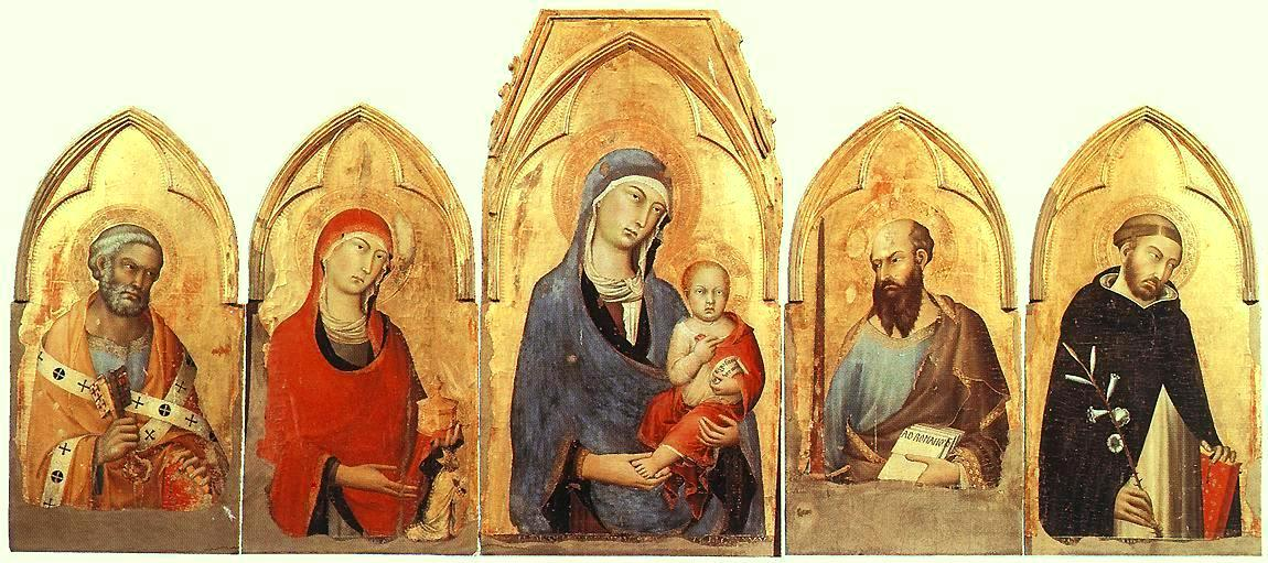 Orvieto Polyptych c. 1321 Tempera on wood, 113 x 257 Museo dell'Opera del Duomo, Orvieto